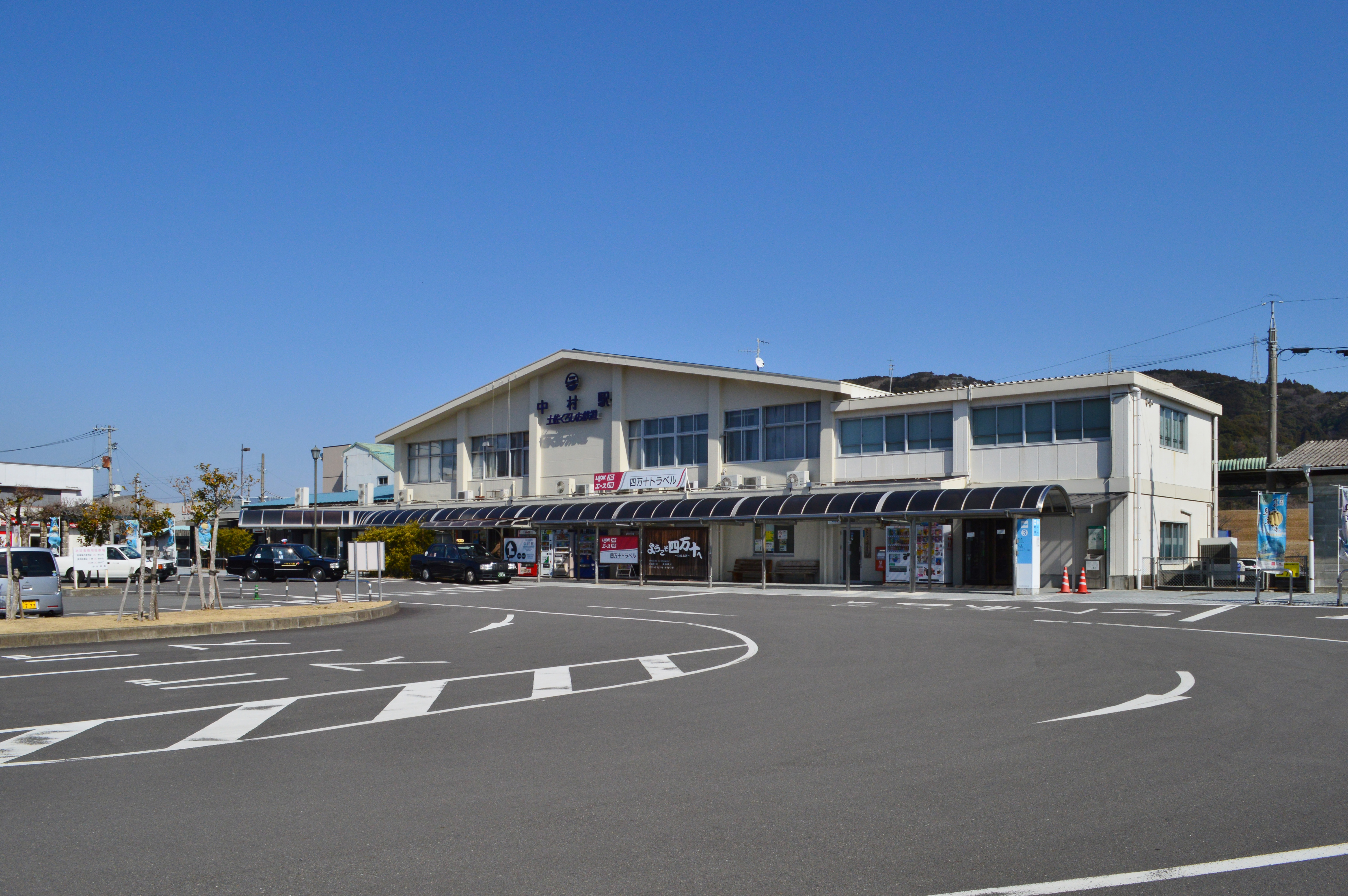 Nakamura Station in Kochi prefecture, Japan